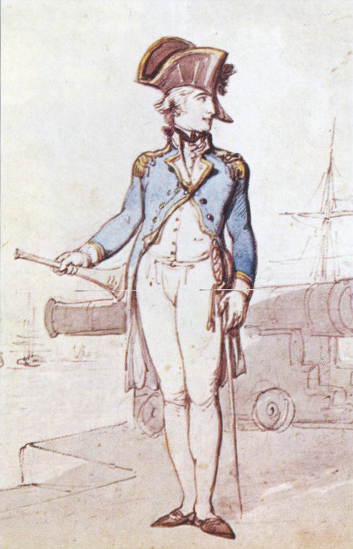 Royal Navy captain